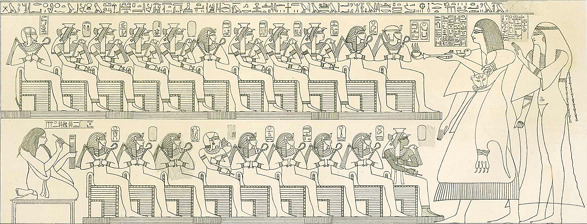 Deceased and wife before kings, queens, and a prince in two rows, TT 359, Deir el-Medina, Luxor West Bank, Egypt